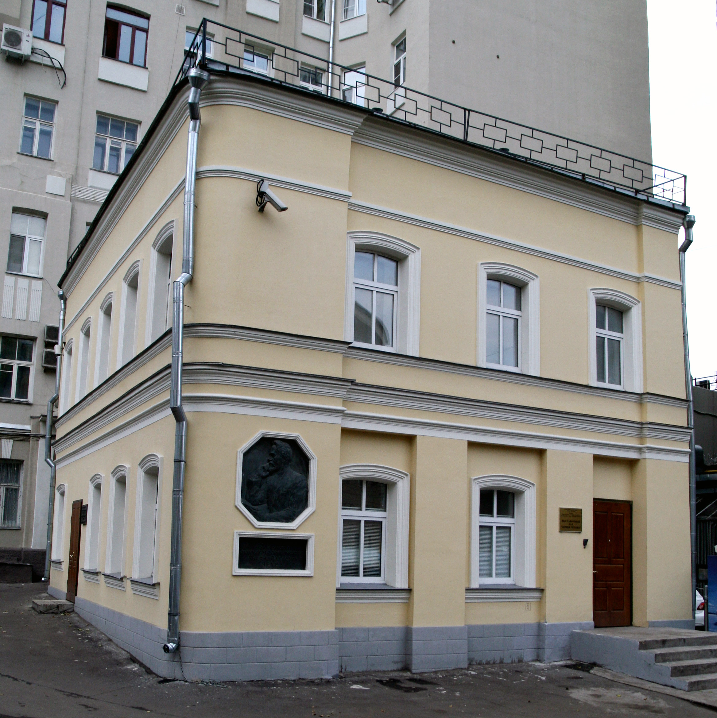 Moscow, Malaya Dmitrovka Street 29